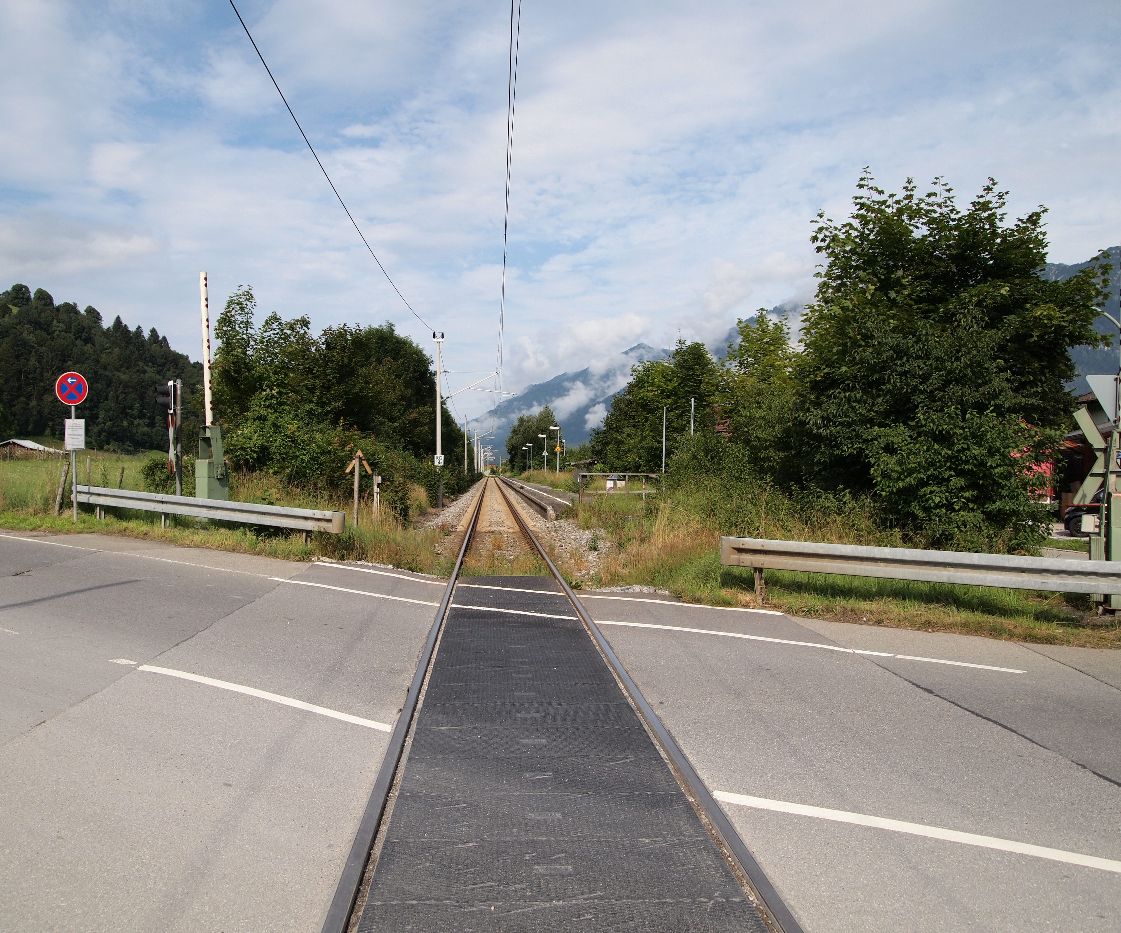 Railway track and Wildenauer Straße in Garmisch-Partenkirchen. This photograph was taken with an Olympus E-PL1